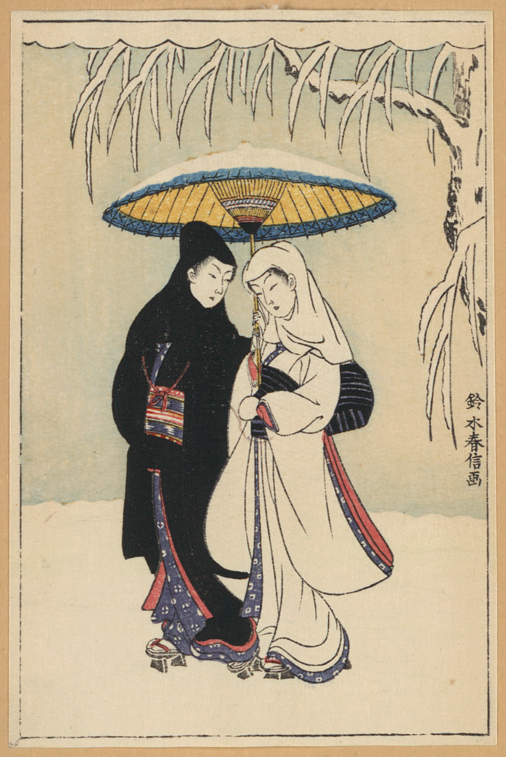 "Couple under an umbrella in the snow (crow and heron)" Color woodcut print. (26.1 x 19.6 cm ?) (copy ? D. Waterhouse 2013, TI, n° 171, 172)